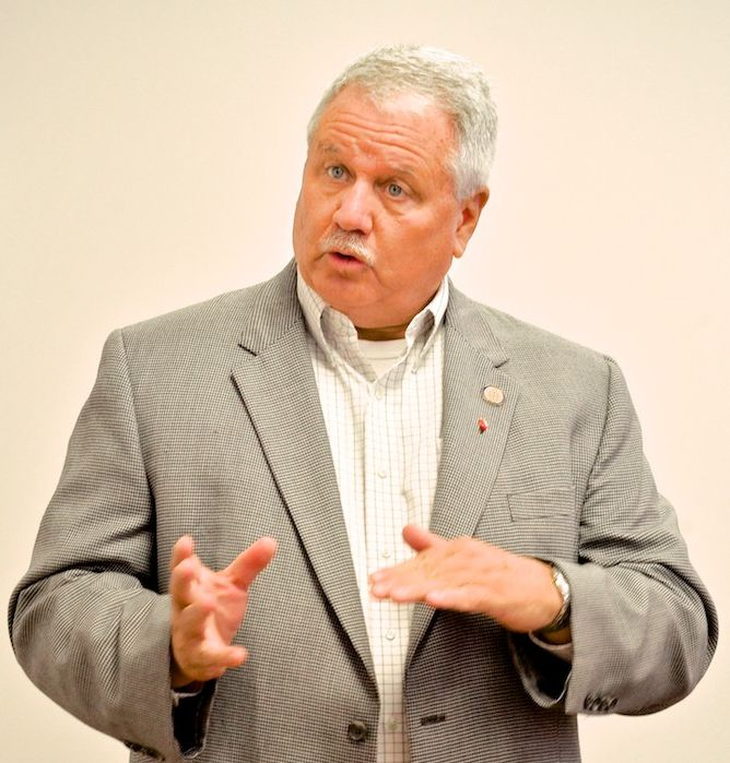 Cropped photo of Delegate Hyland F. "Buddy" Fowler talking with with Germana Community College President Dr. David A. Sam. Orginal photo date: 16 June 2016, 09:12 This file has been extracted from another file: 20160616 GCC Caroline w Del Fowler (27440890680).jpg